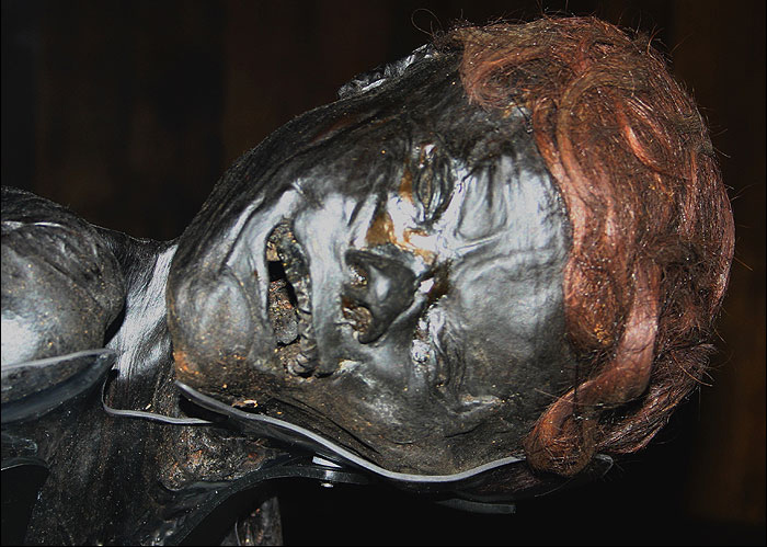 Face of the Grauballemann at Mosegaard-Museum, Denmark